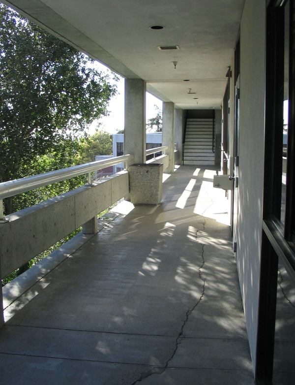 This is the hallway in Piedmont Middle School that leads from the art section of the main building to the center of the first floor, which includes Food Service. This photo was taken on February 23, 2007.